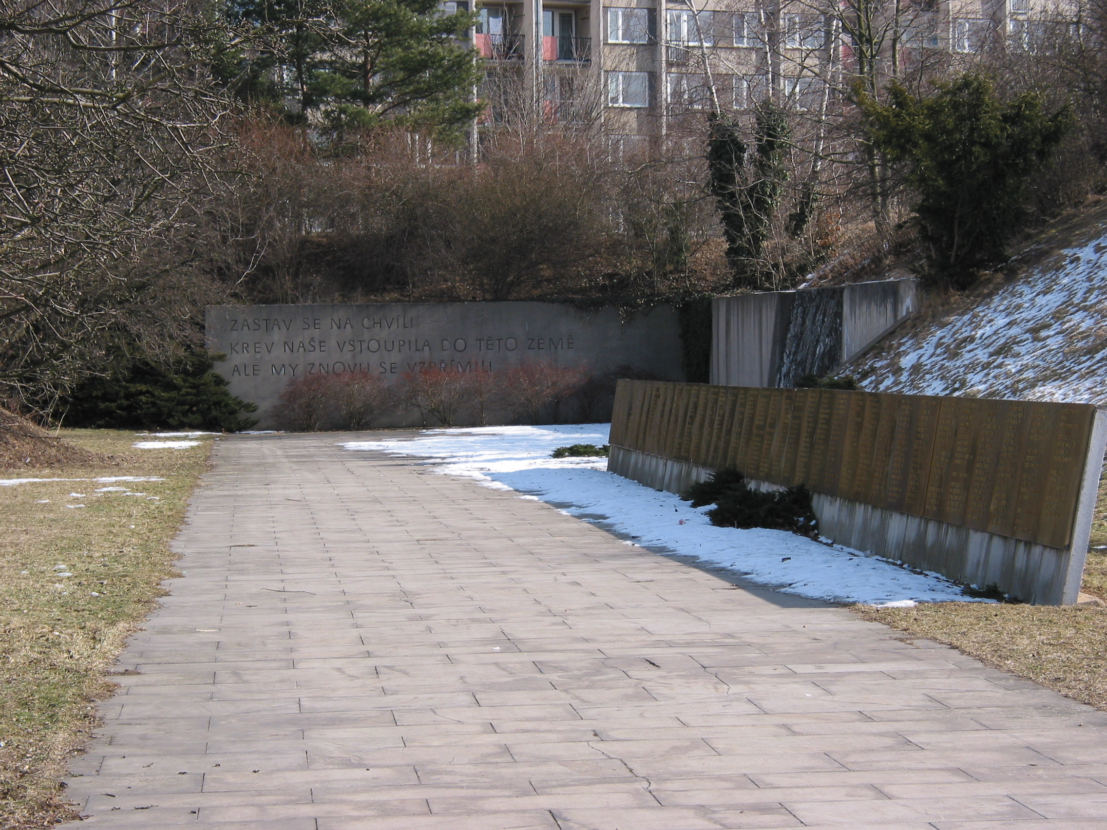 Kobylisy shooting range - verses by poet Miroslav Florian (Stand still for a while / Our blood entered this soil / But we straightened up again) and row of plaques listing all victims.